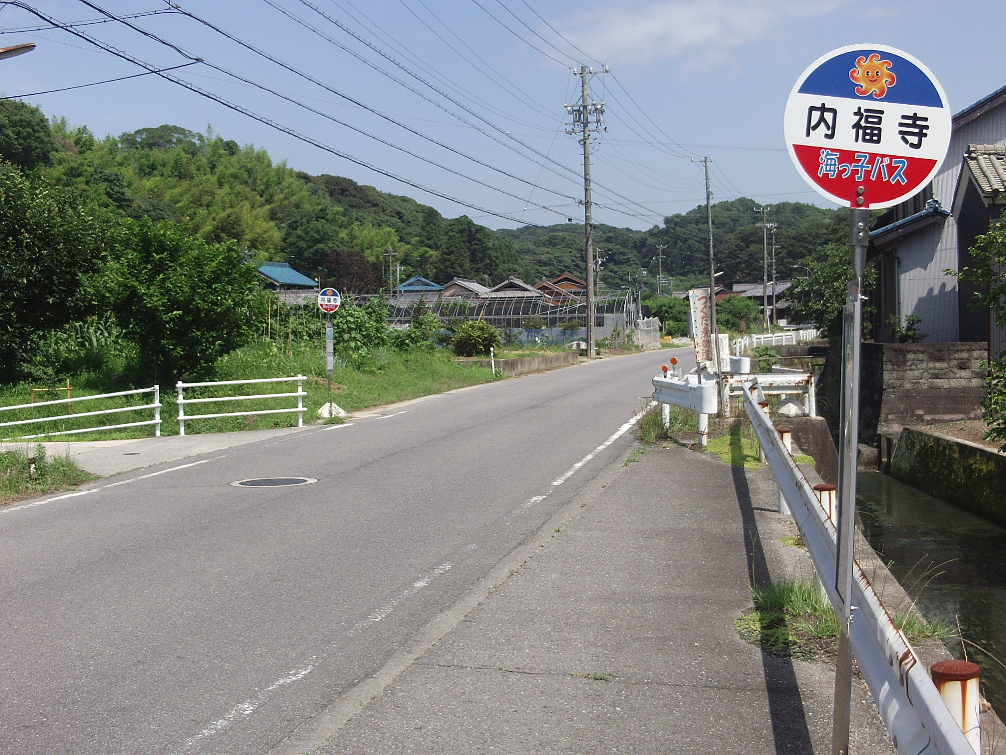 Utsufukuji Bus Stop of Umikko Bus on the Aichi Prefectural Road Route 276 in Utsumi Aza-Hazama, Minamichita Town